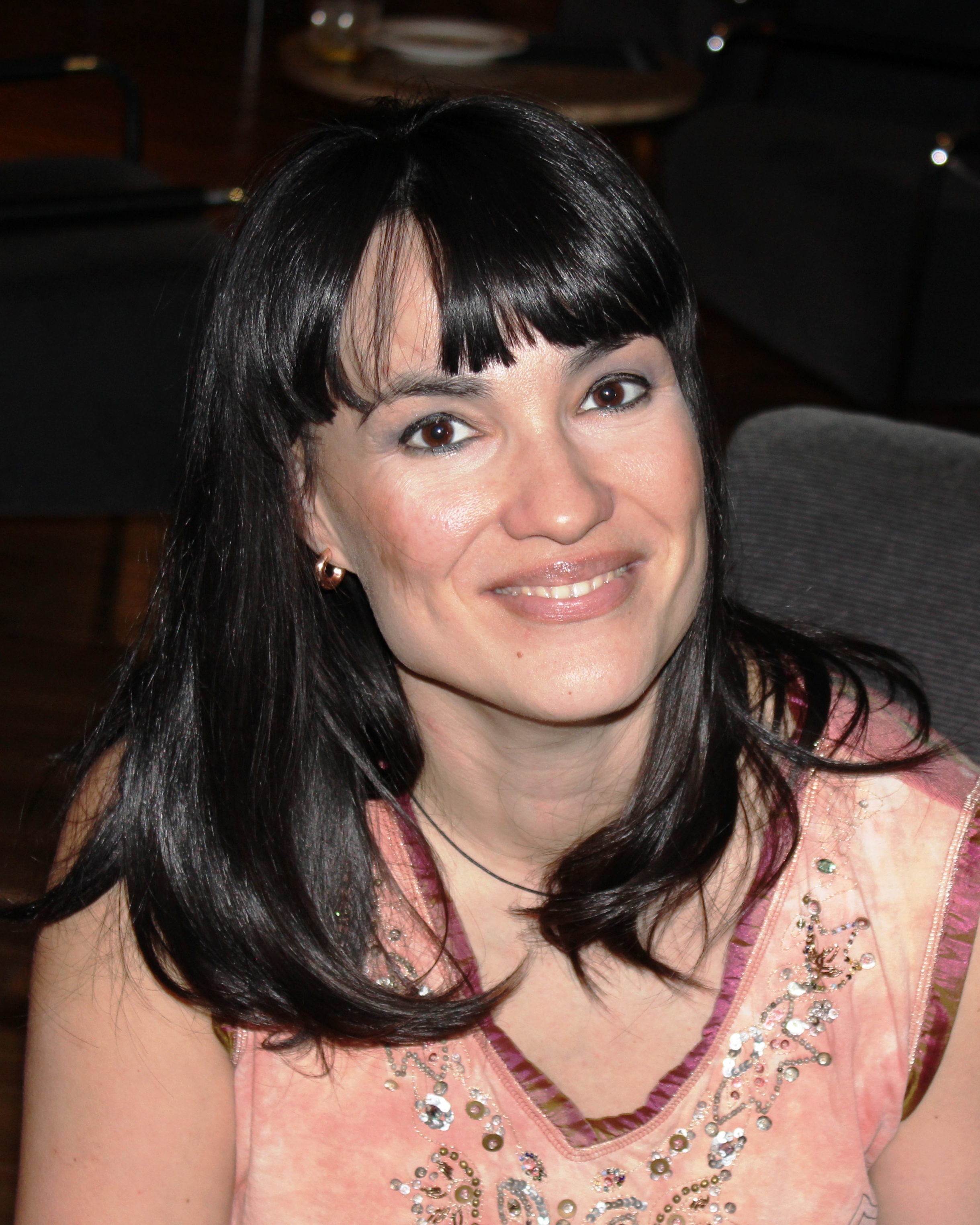 Irene Villa. Journalist, author, skier. Image taken at La Molina, Spain. 2013.